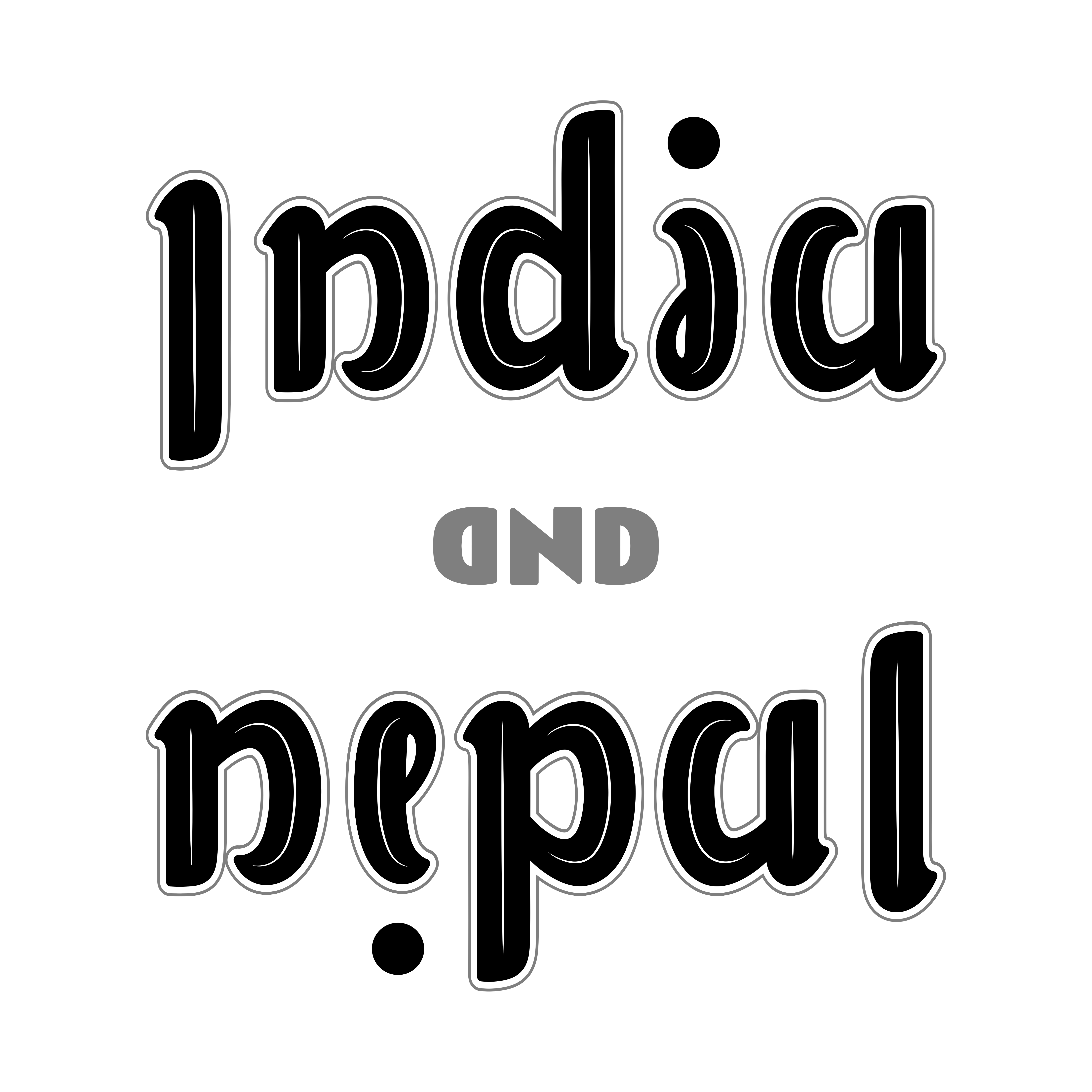 Ambigram India and Nepal. 180° rotational symmetry. Indian Nepalis are Nepalese (Nepali people) who have Indian heritage. The India–Nepal Border, an open international border running between India and Nepal, is 1,751 km (1,088.02 mi) long, and includes the Himalayan territories as well as Indo-Gangetic Plain. See also India–Nepal relations.